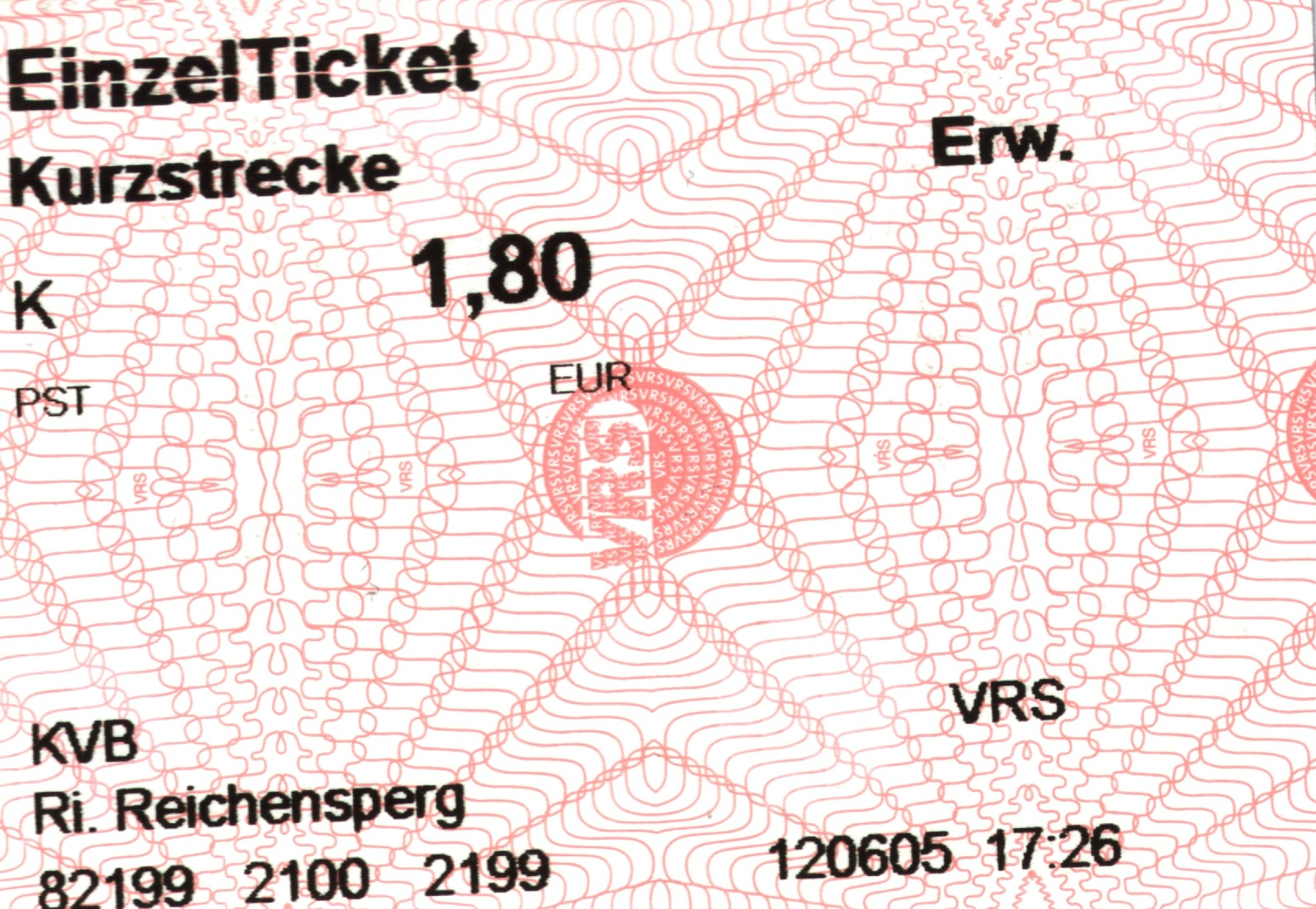 VRS Kurzstrecken Ticket